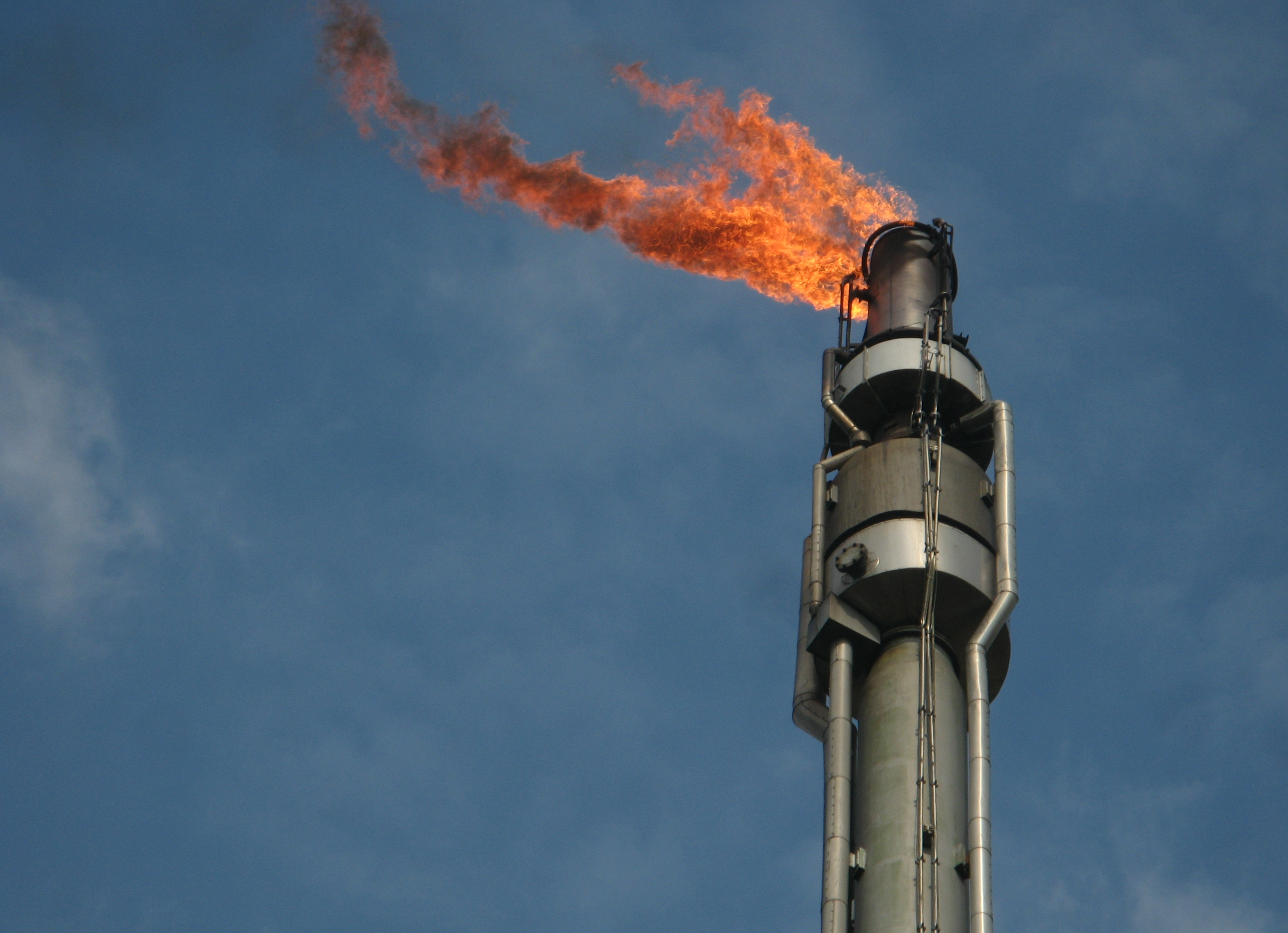 Shell Oil refinery in Hemmingstedt, Dithmarschen, Germany in summer